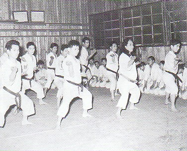 Japanese karateka, Gogen Yamaguchi(Second from right) and his students on training.